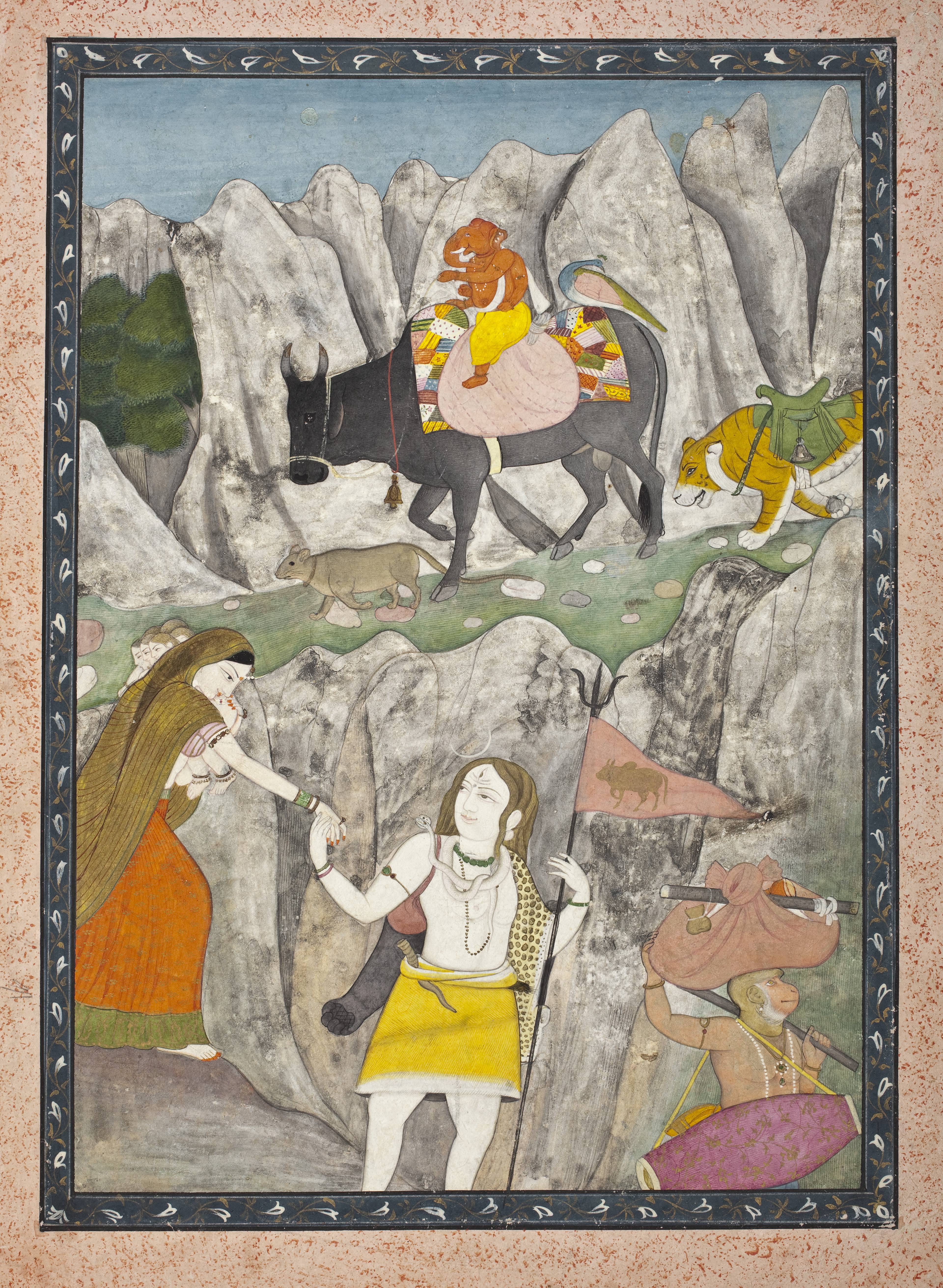 Made in: India, Himachal Pradesh, Chamba